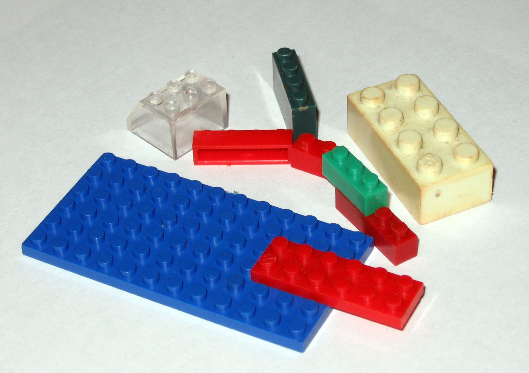 PEBE bricks, from the normal and the mini series by comparison. They can't be combined with each other.